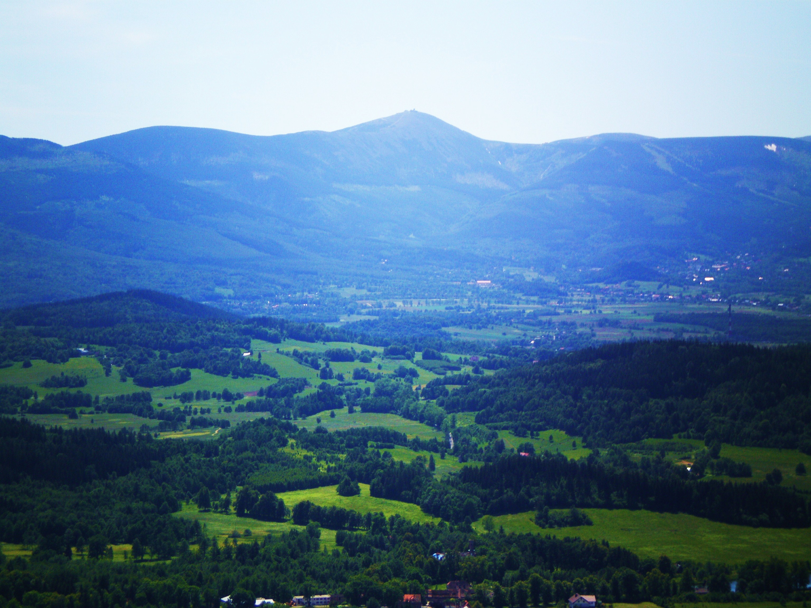 View of the Karkonosze Mountains